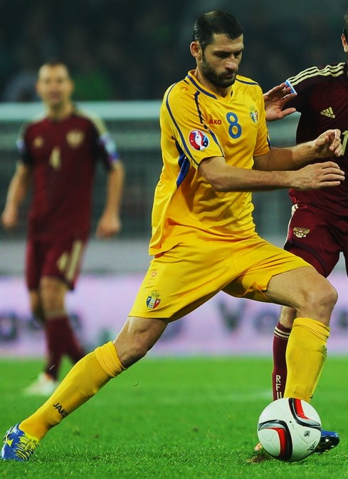 Alexandru Gațcan